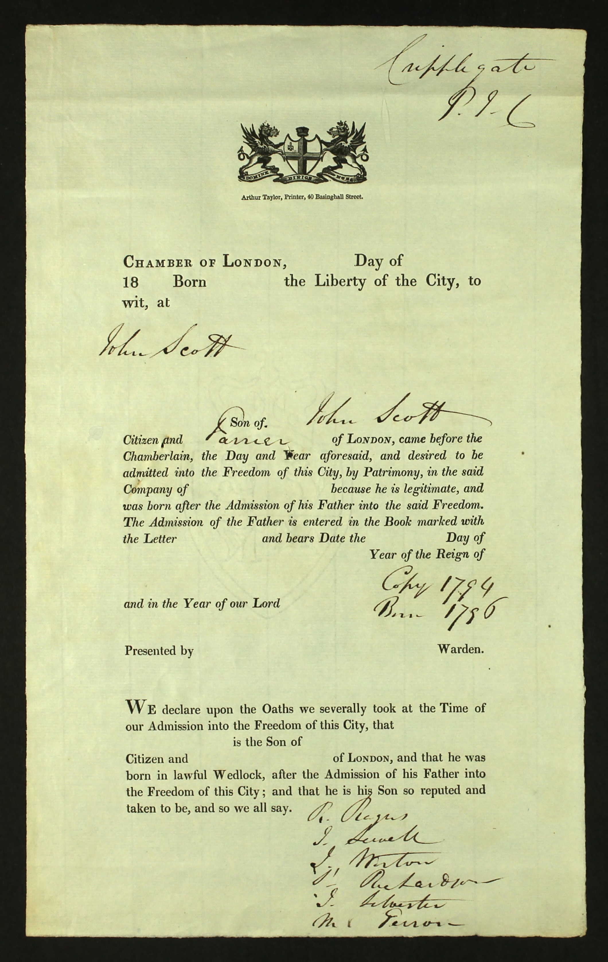 John Scott England Freedom of the City Admission Papers